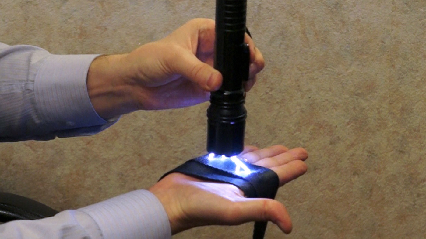 As a good conductor of electricity carbon fiber tape is often used for 'stun gun' or Taser-proof clothing.